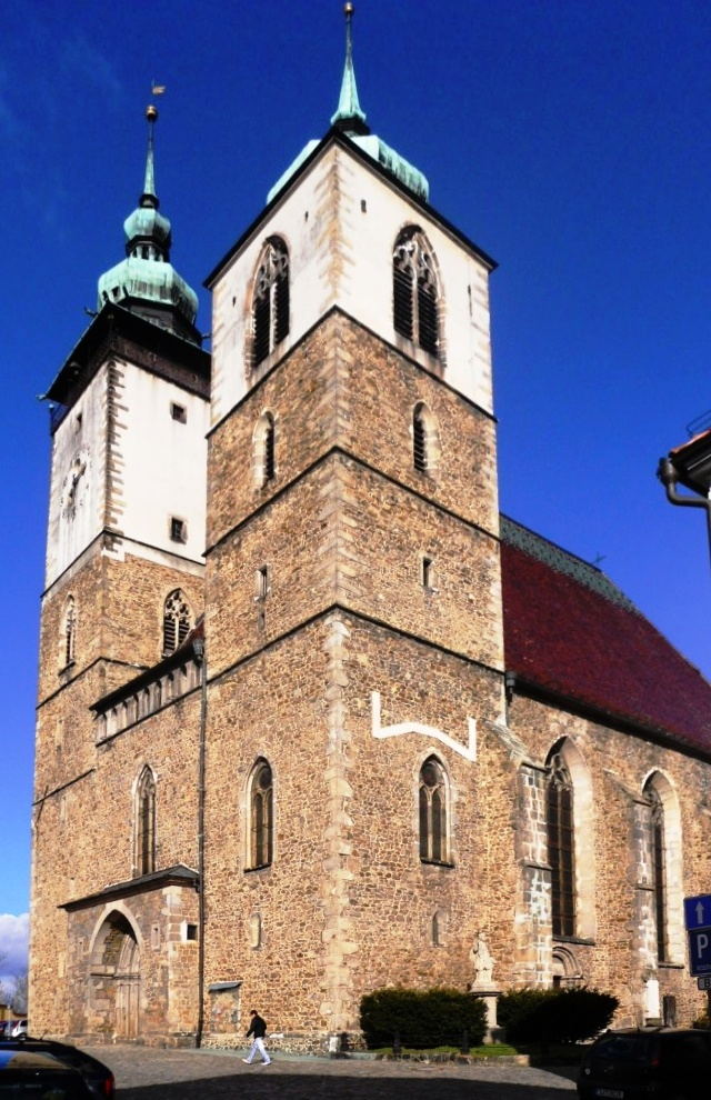 Jihlava, St James from SW